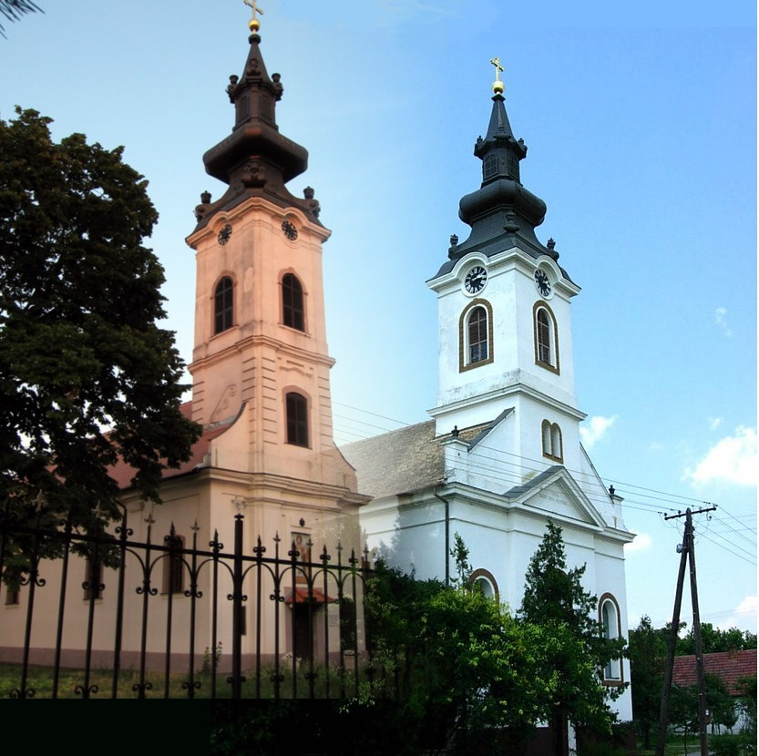 Serbian Orthodox church and Slovak Evangelistic A.V. church in Silbaš